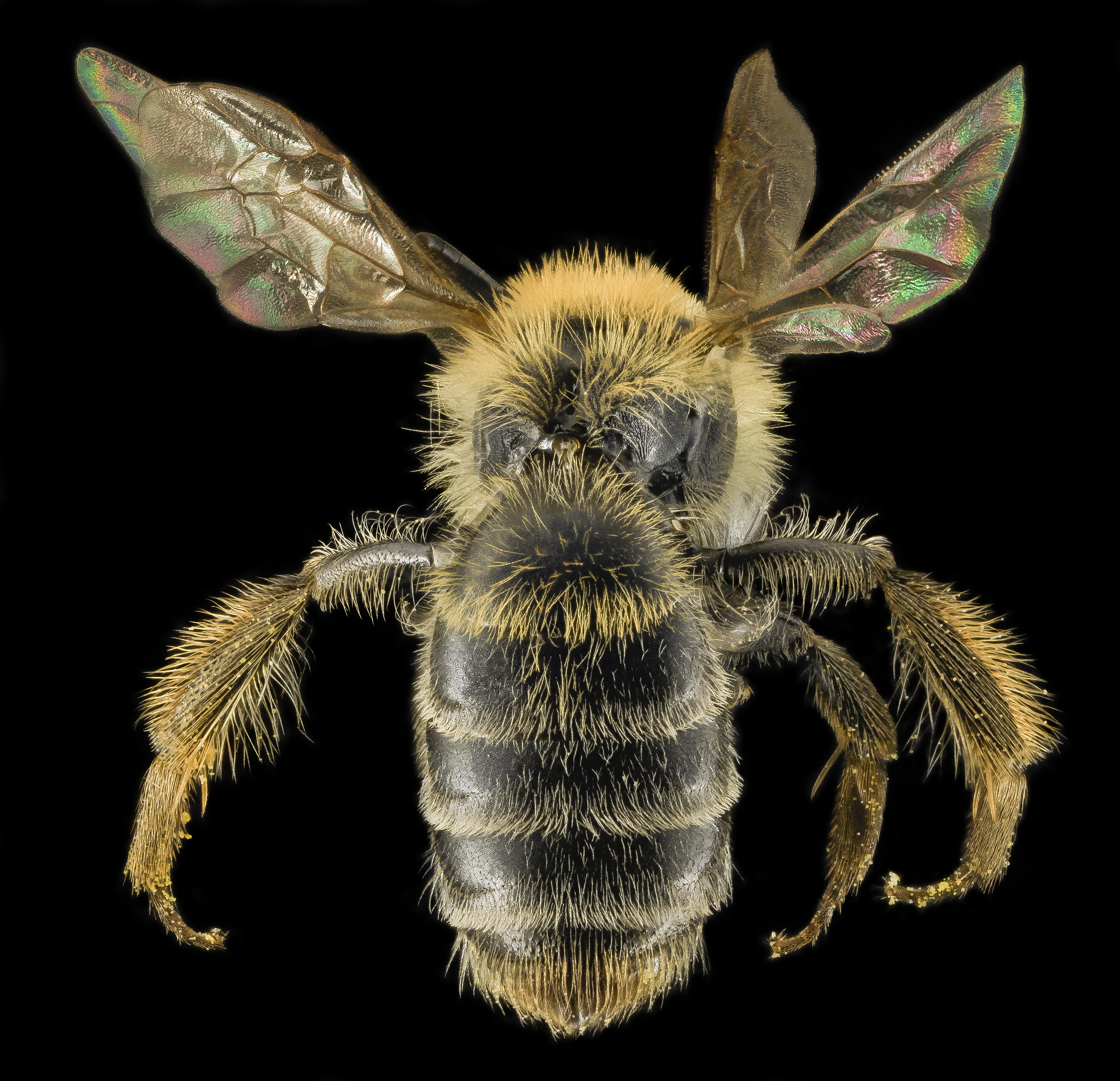 Go to the woods in the Eastern United States, find a blooming Rhododendron, look for this bee, it specializes Rhodos and Azalea pollen for its babies. Collected in Giles County (probably on a Rhododendron) by Barbara Abraham's students at Mountain Lake Biological Station. Photo by FT Eyre. Canon Mark II 5D, Zerene Stacker, Stackshot Sled, 65mm Canon MP-E 1-5X macro lens, Twin Macro Flash in Styrofoam Cooler, F5.0, ISO 100, Shutter Speed 200, link to a .pdf of our set up is located in our profile